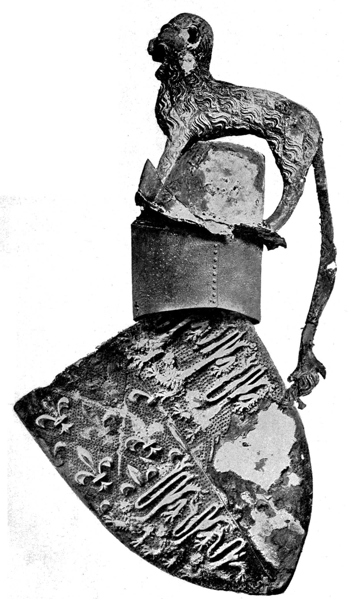 Fig. 271.—Shield, helmet, and crest of Edward the Black Prince, suspended over his tomb in Canterbury Cathedral. In this early depiction of the English Royal Arms, the lion upon the chapeau looks straight forward over the front of the helm.